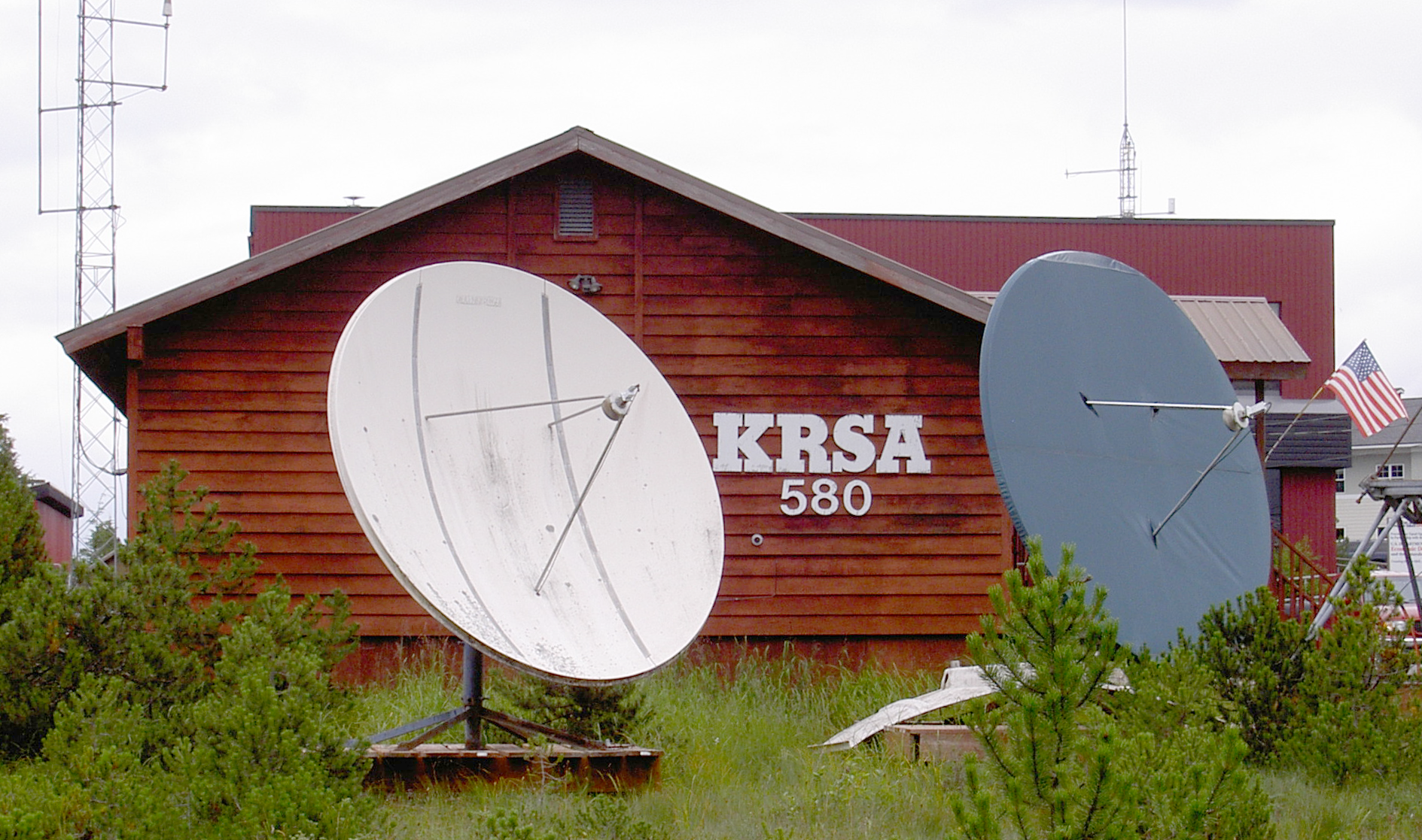 facilities of radio station KRSA in Petersburg, Alaska, USA